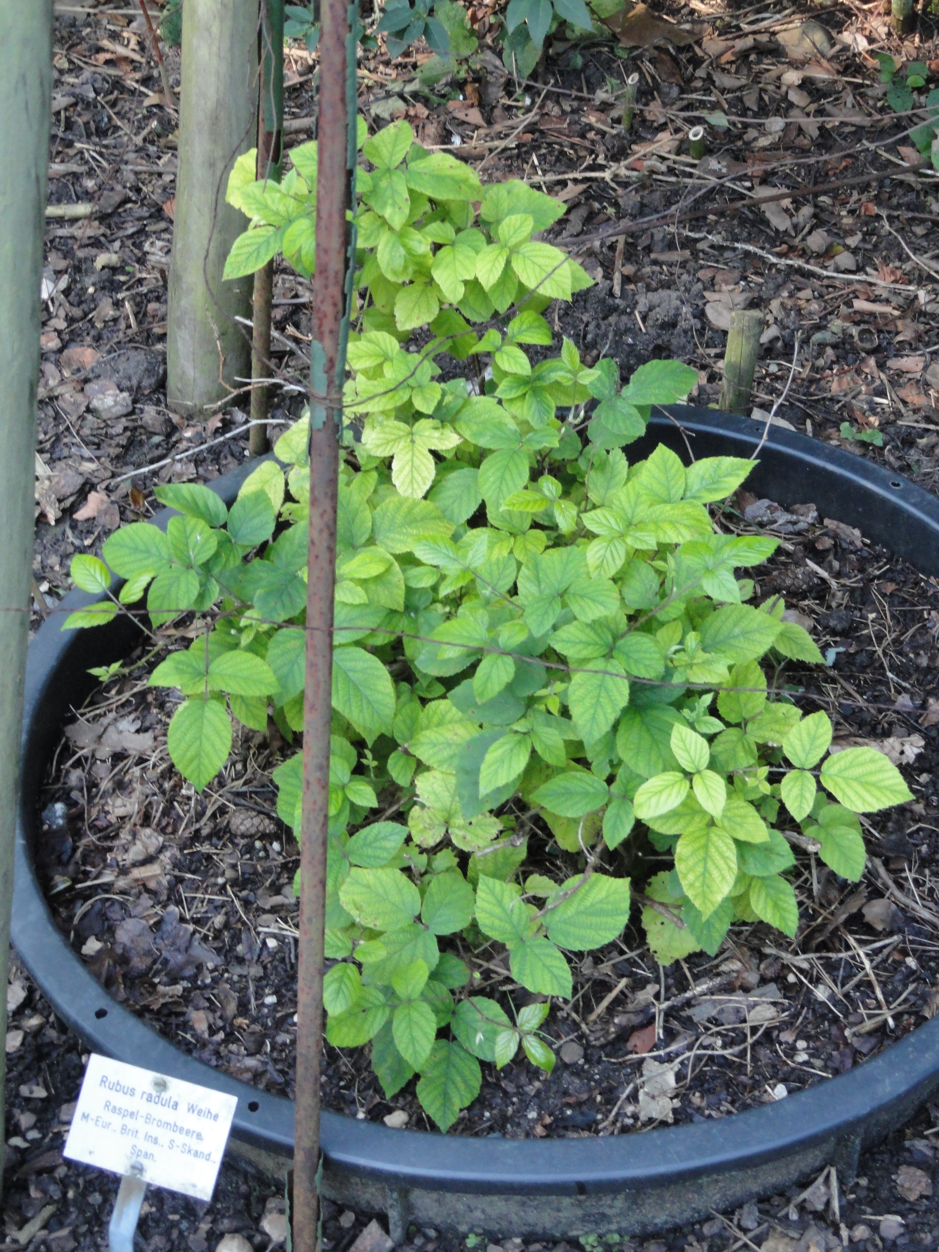 Botanical specimen in the Botanischer Garten, Frankfurt am Main, located at Siesmayerstraße 72, Frankfurt am Main, Germany.